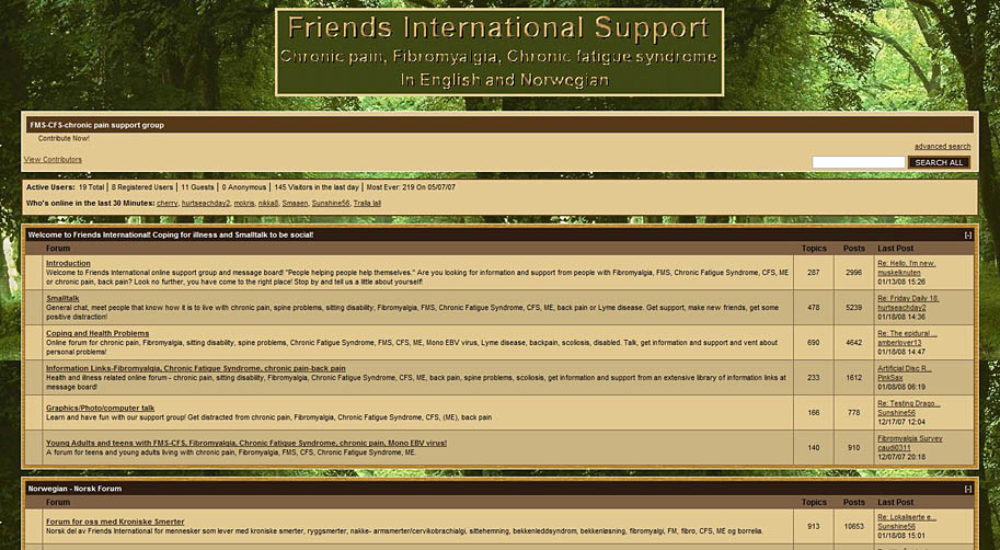 screen shot